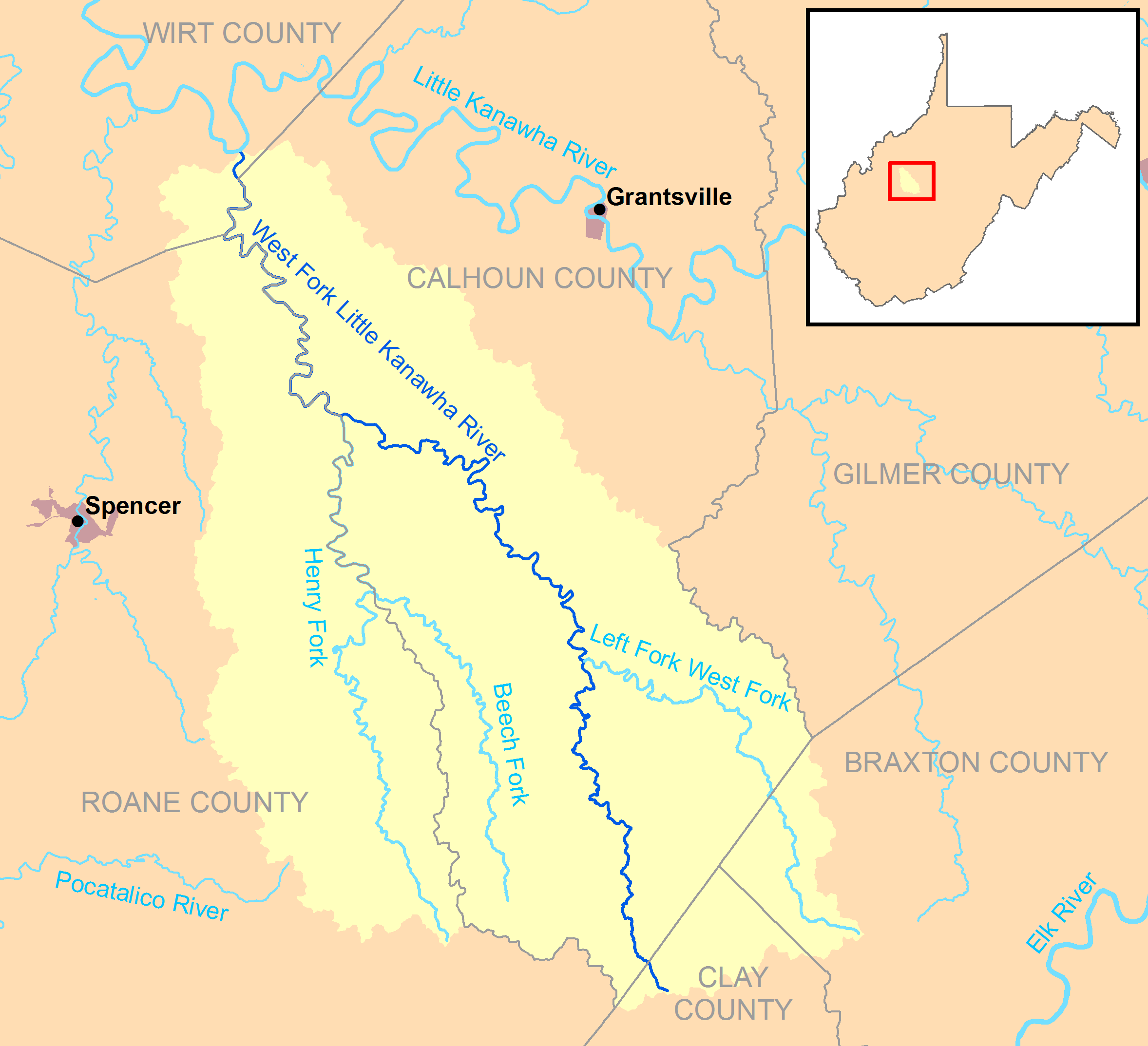 A map of the West Fork Little Kanawha River and its watershed (USGS HUC-12 codes 050302030601, 050302030602, 050302030603, 050302030604, 050302030605, 050302030606, and 050302030607), in Wirt, Calhoun, Roane, Clay, and Braxton Counties, West Virginia.